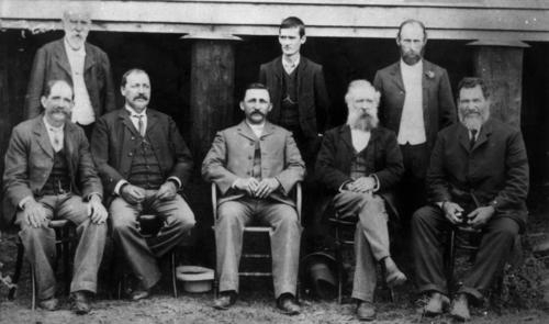 Pialba Council 1904